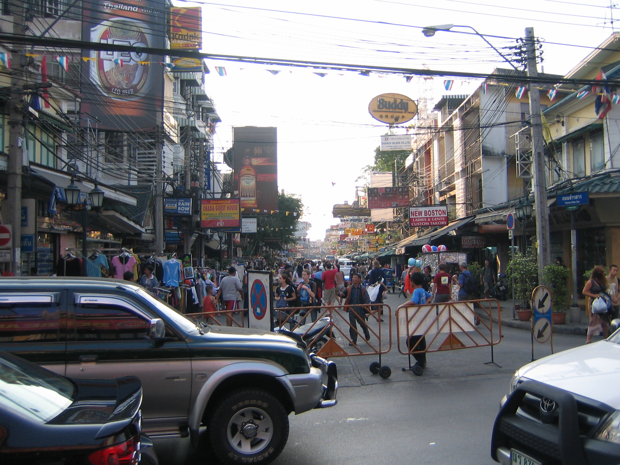 Backpacker's heaven Khaosan Road in Bangkok, Thailand.